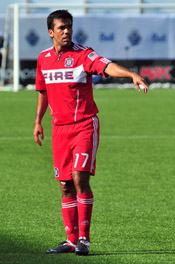 Picture of soccer player, Pável Pardo. Wilson Wong photo.